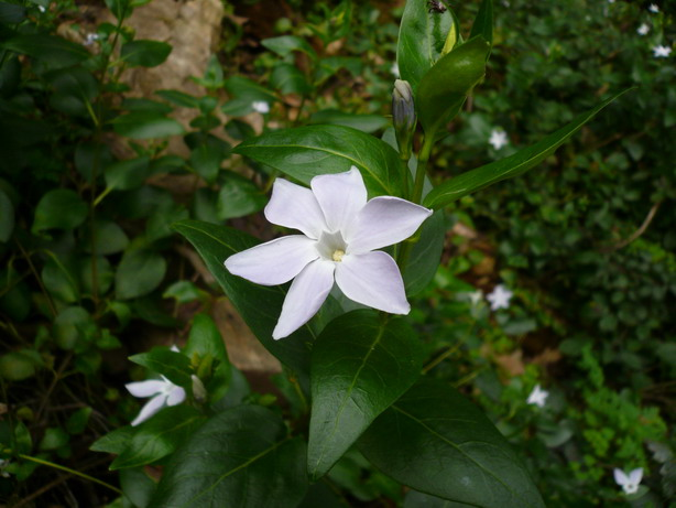 Vinca difformis. February 24th 2007. Serra de Collserola, Barcelona, Catalonia.